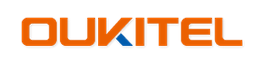 Oukitel Logo